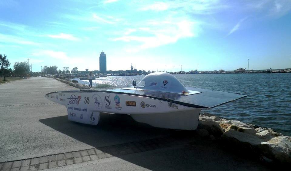 Solaris Solar Car team, Smyrna solar vehicle.